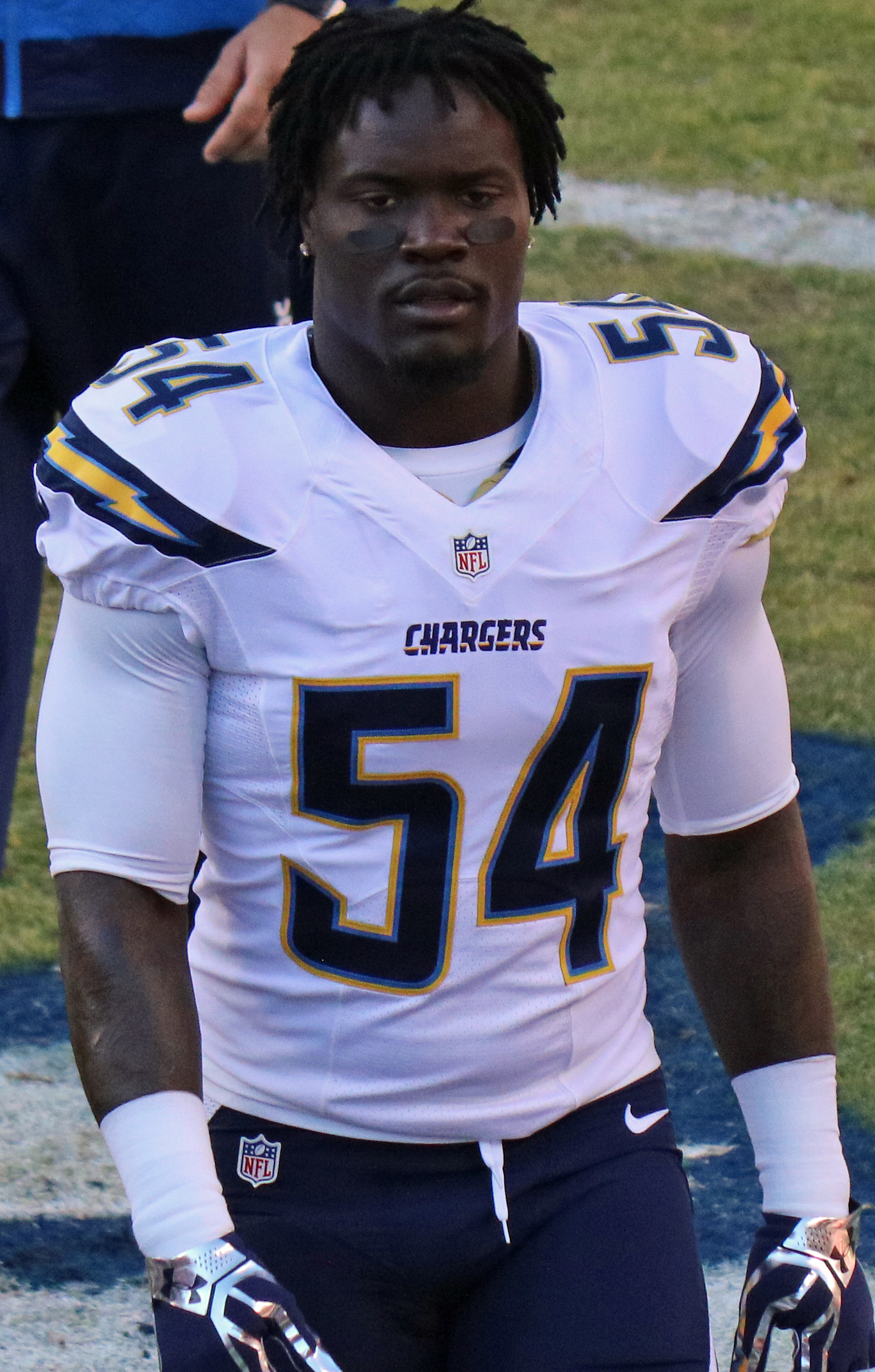 Melvin Ingram, a player on the National Football League.